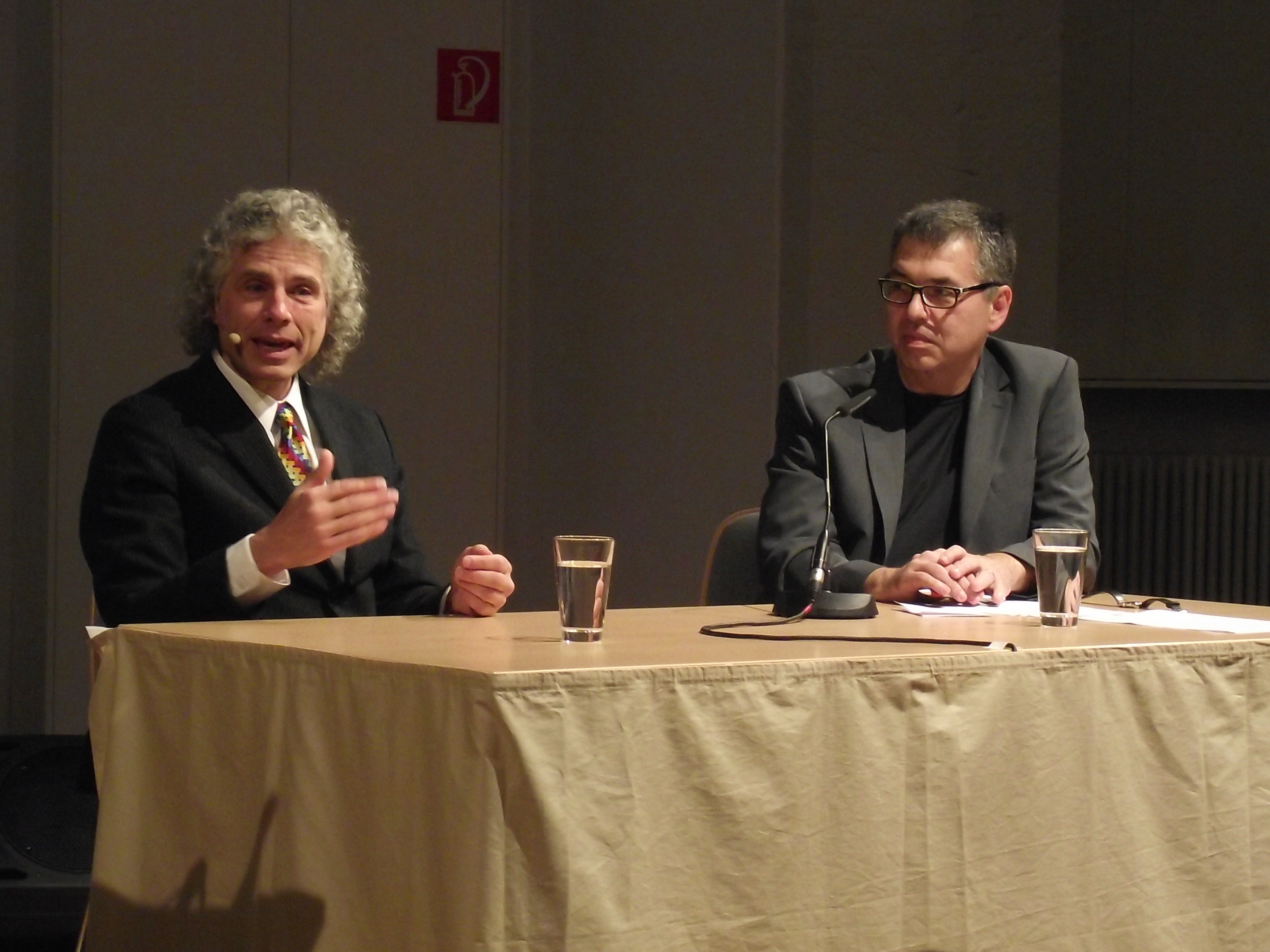 Steven Pinker and Nils Brose at the Göttinger Literaturherbst, 10/10/2010 Göttingen, Germany.